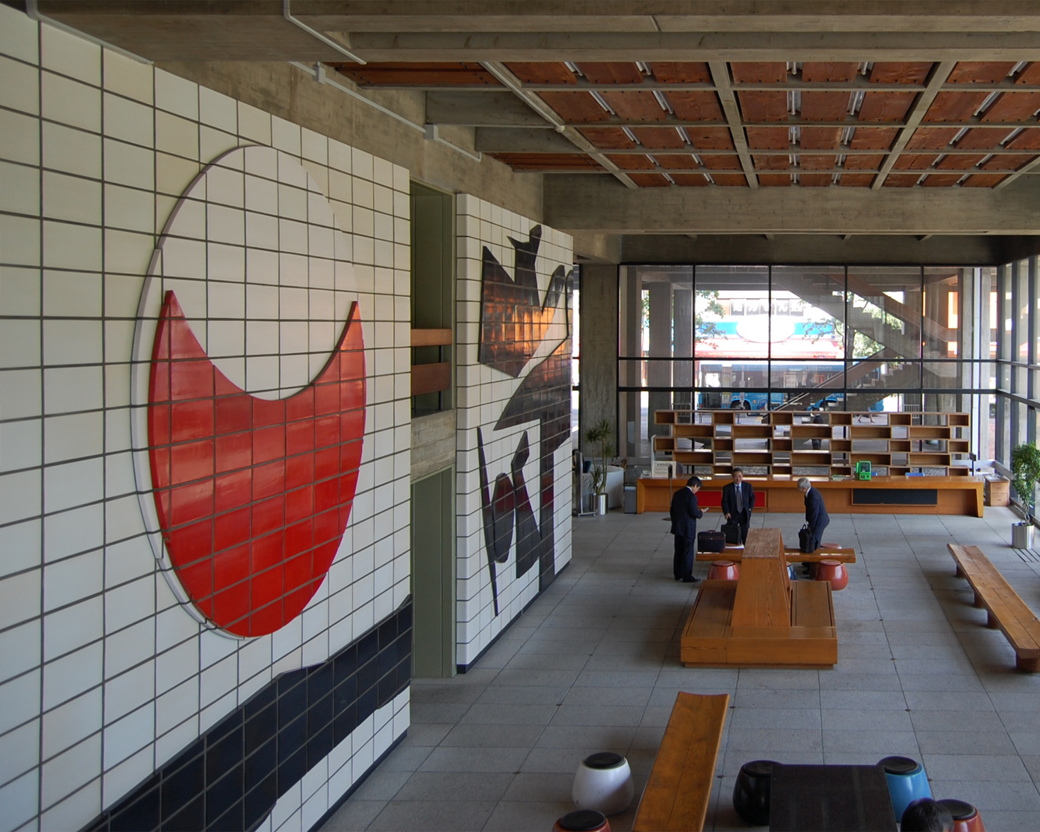 Interior Of The East office of Kagawa Prefecture, Takamatsu, Kagawa, Japan, designed by Kenzo Tange in 1958.